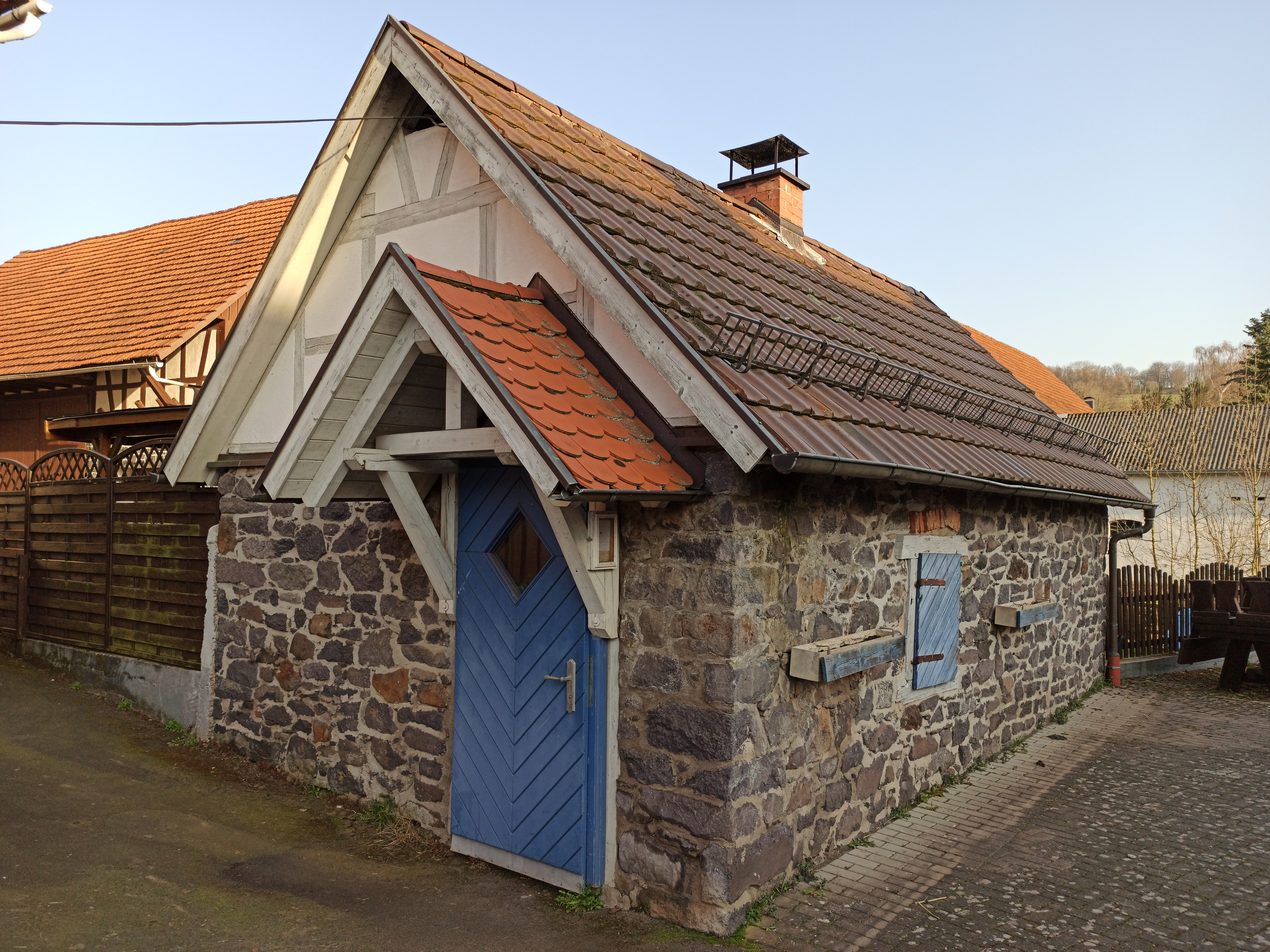 The old bakeryhouse of Burkhards